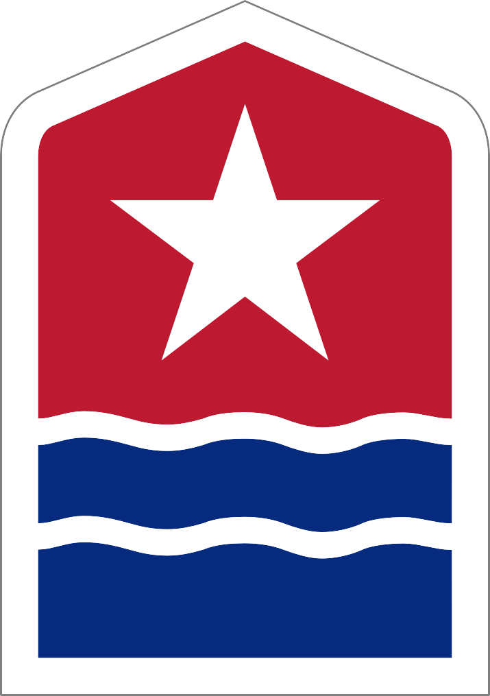 Shoulder Sleeve Insignia of United States Army Forces in the Middle East (USAFIME) and Africa-Mdidle East Theater